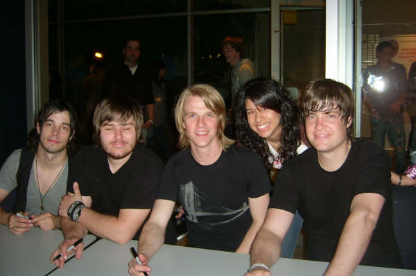 I am the originator of this photo. I hold the copyright. I release it to the public domain. This photo depicts the Canadian Christian music group Starfield.